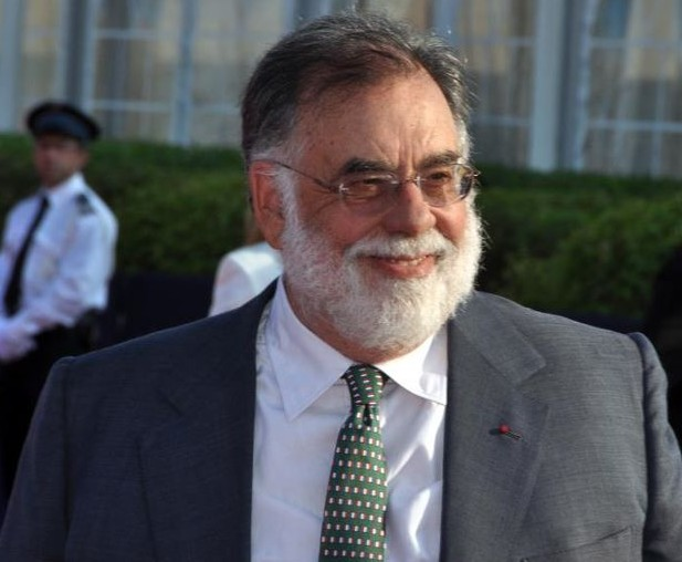 Francis Ford Coppola at the Deauville film festival